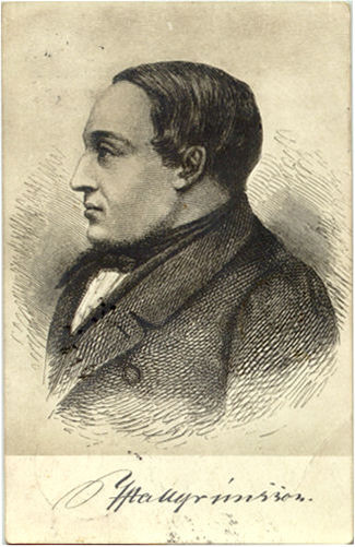 Sketch of the icelandic poet Jonas Hallgrímsson by Déssington. Originally drawn in 1845.